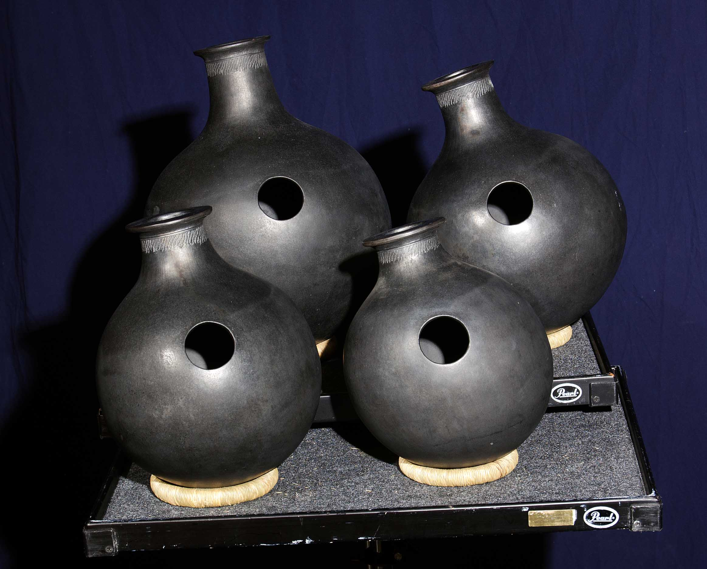 Udus (from Emil Richards Collection)